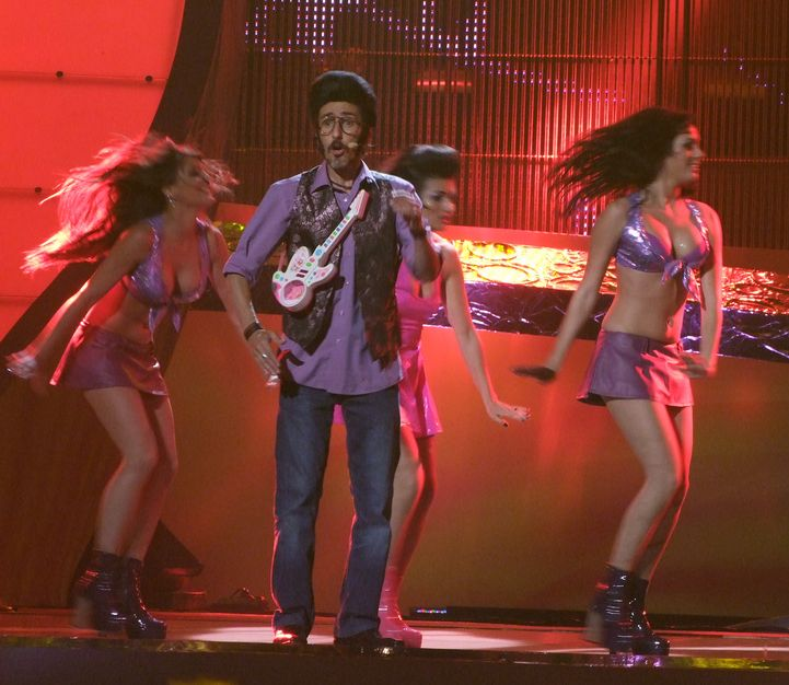 Rodolfo Chikilicuatre (Spain) performing Baila el Chiki-chiki, Eurovision Song Contest 2008 in Belgrade, Serbia, May 24, 2008